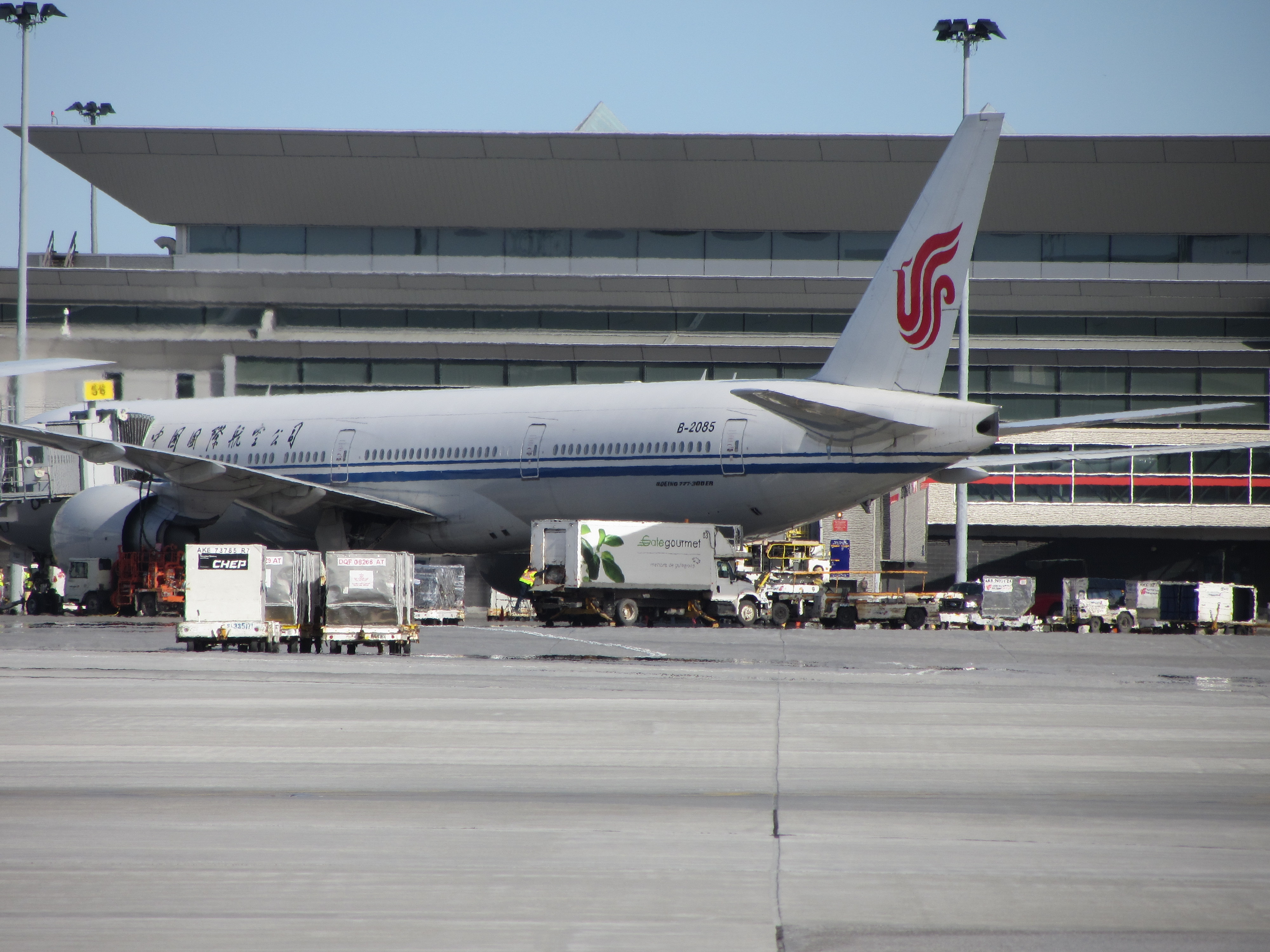 CA at the gate in YUL